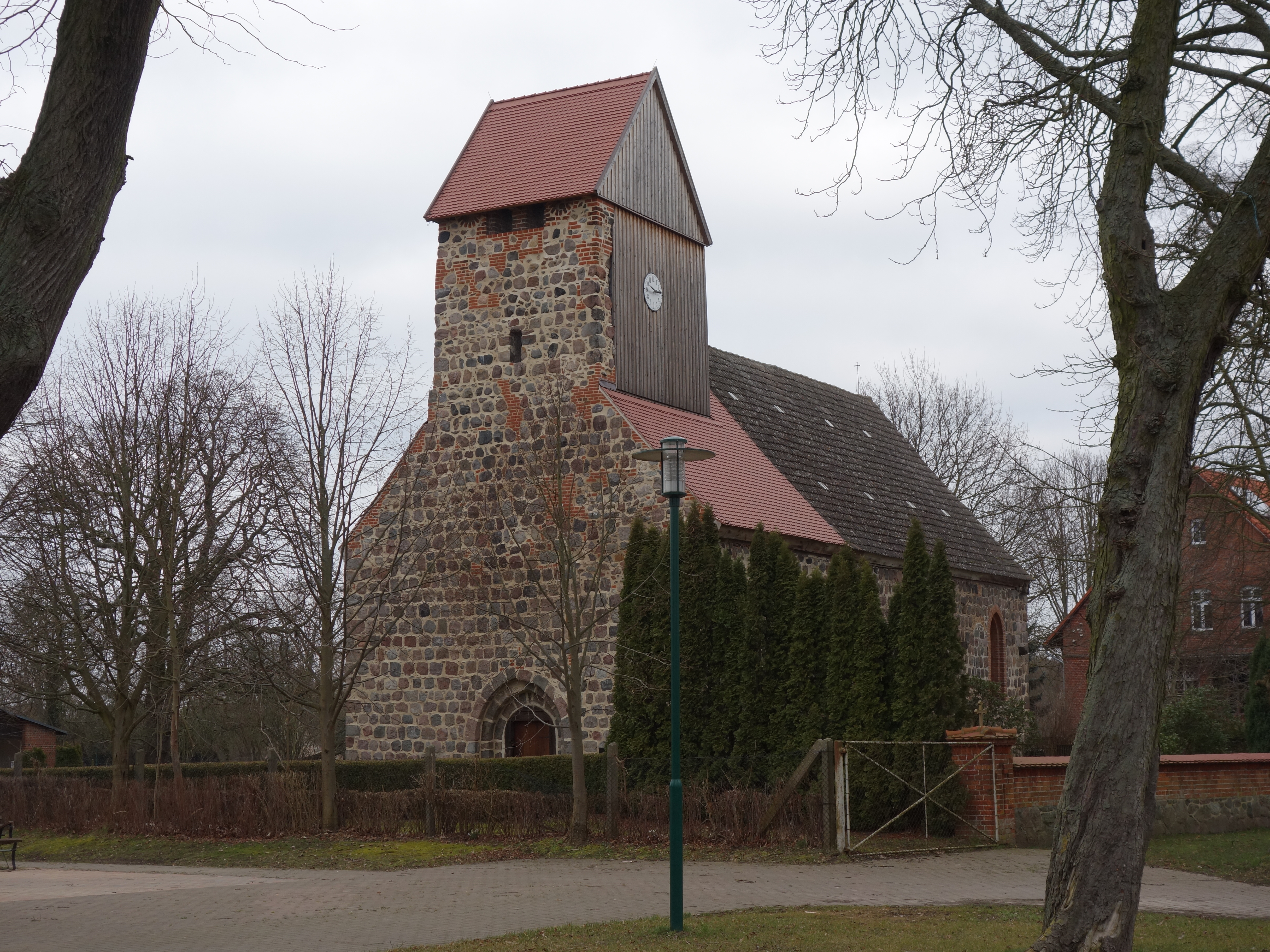 Southwestern view of Brunn church, Wusterhausen municipality, Ostprignitz-Ruppin district, Brandenburg state, Germany